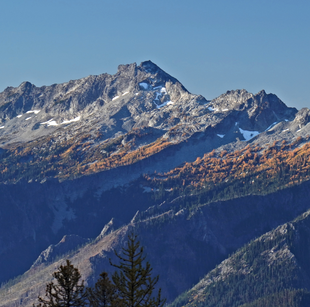 Bandit Peak on Chiwawa Ridge. North Cascades of WA